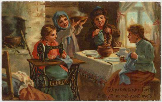 Postcard by Vladimir Taburin